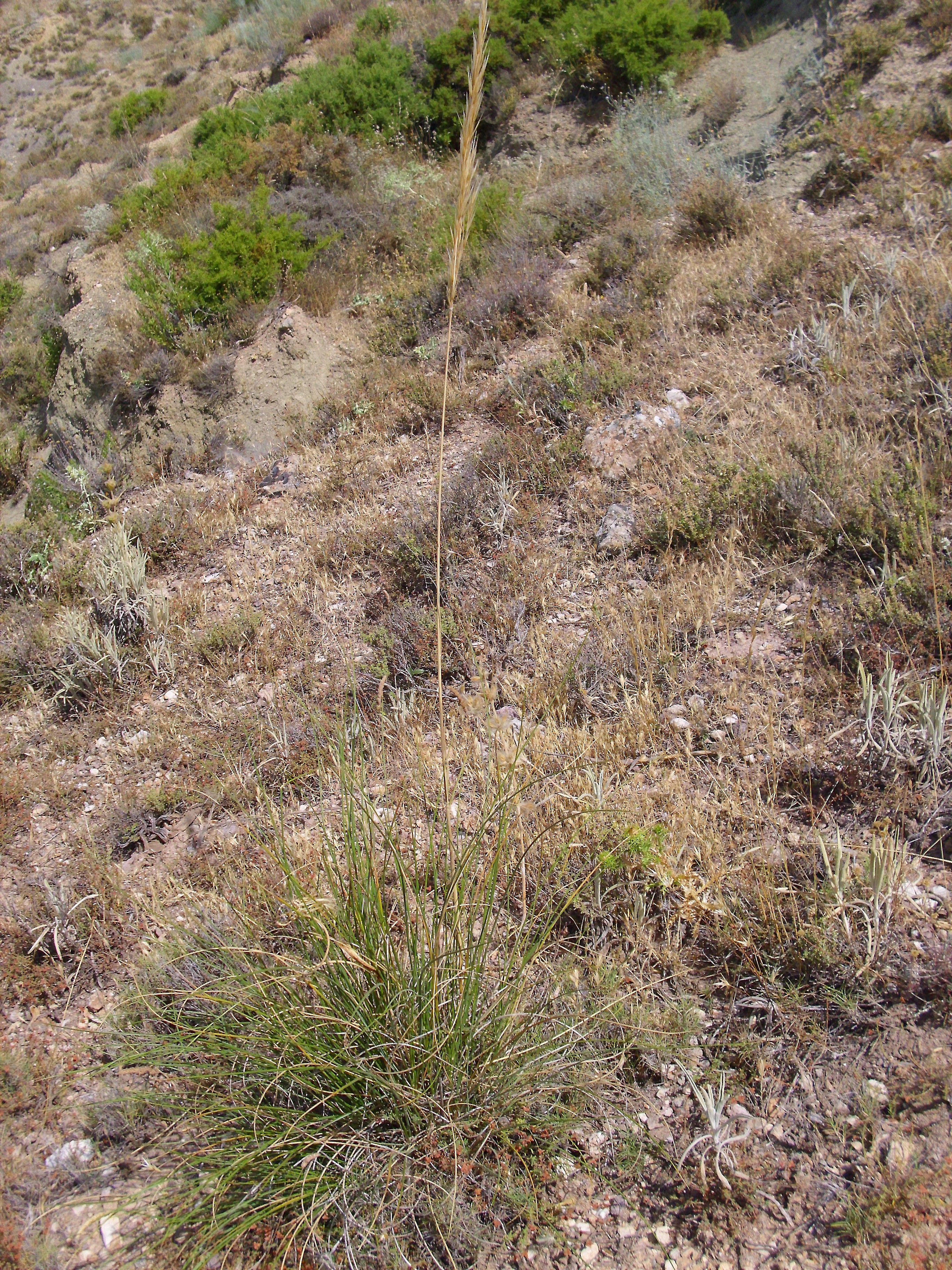 Stipa tenacissima habit, in Sierra de Alfacar y Víznar, Granada, Spain.